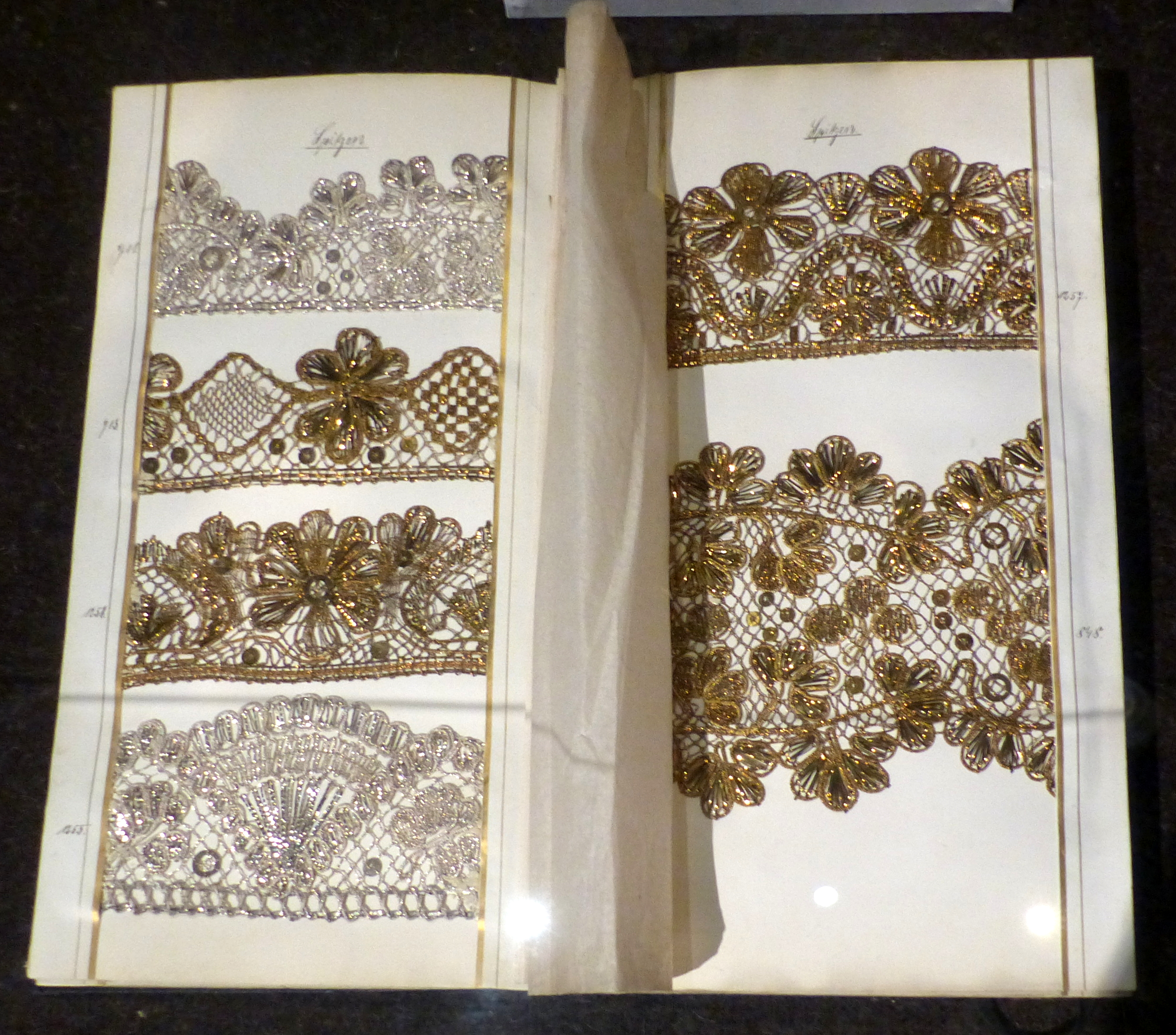 Schwabach ( Middle Franconia ). City Museum: Examples of leonic wire products.